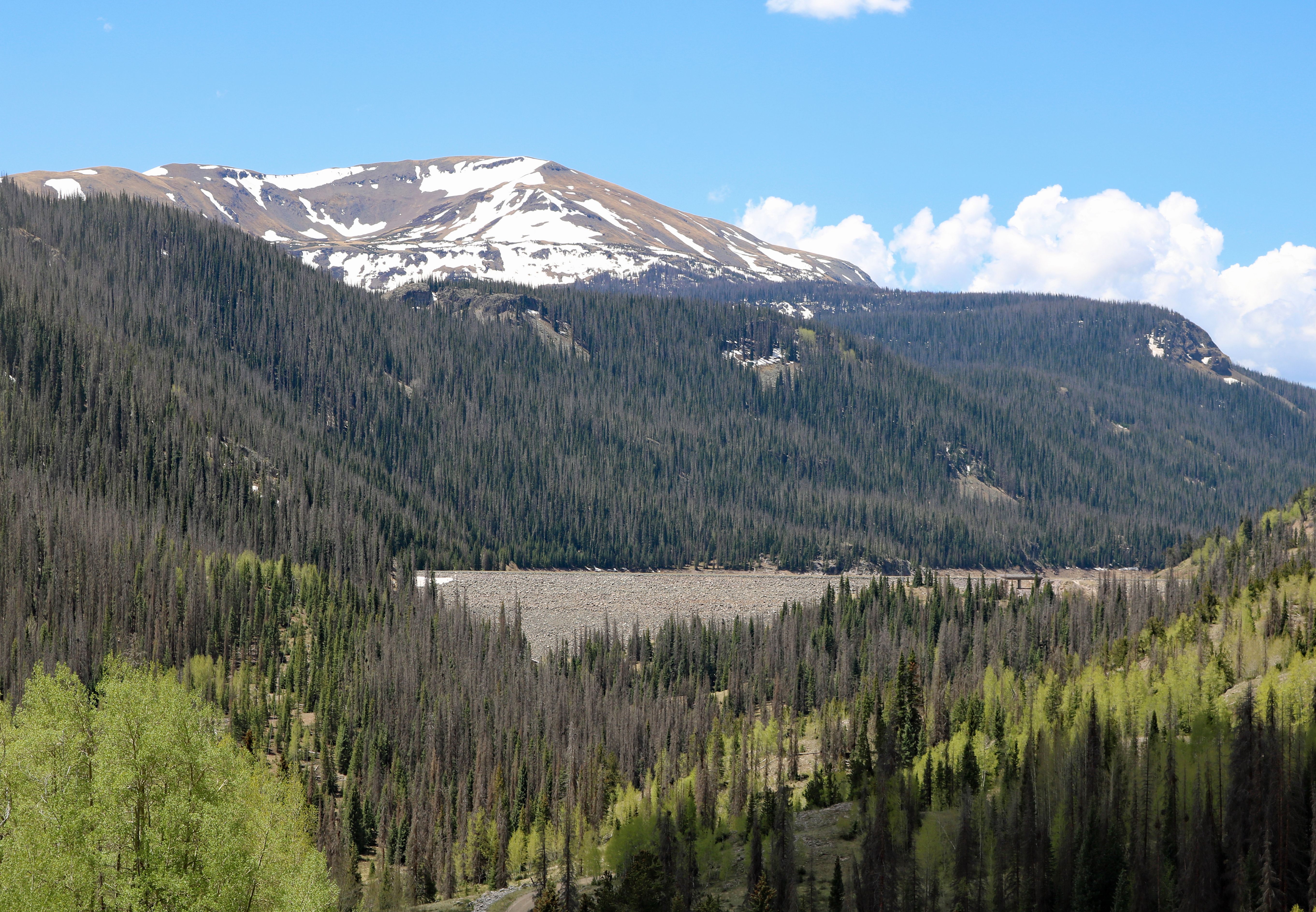 A view of part of the Platoro Dam in Conejos County, Colorado. Only about half of the dam is visible; the spillway, which marks the center of the dam, is visible on the right. The mountain is Conejos Peak.